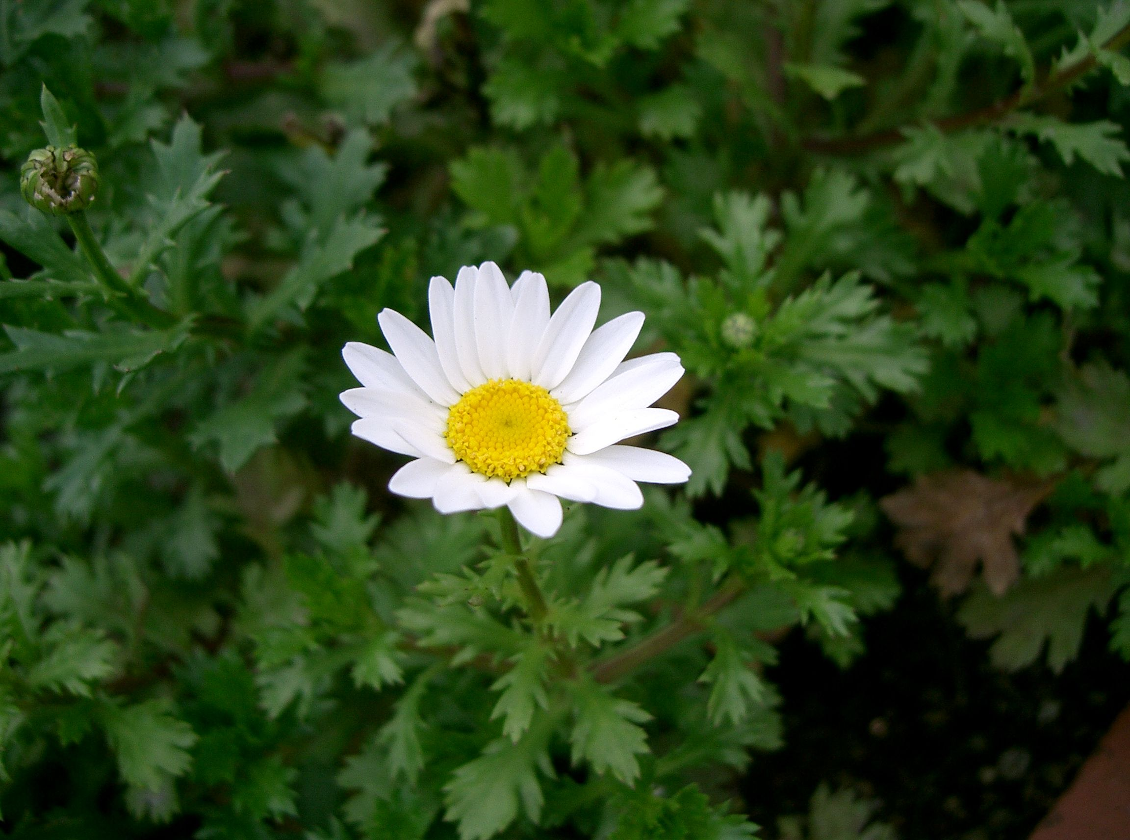 Leucanthemum paludosum 'Snow Land'